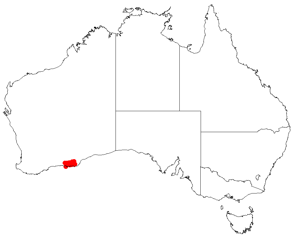 Hakea bicornata Occurrence data downloaded from Australasian Virtual Herbarium on 22 November 2018 using